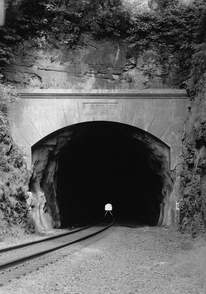 Black Rock Tunnel, Phoenixville, Pennsylvania, USA. Elevation of East Portal, Looking NW.